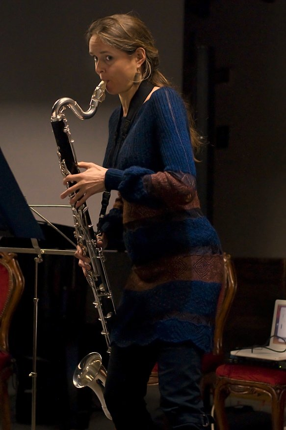 Tara Bouman playing in Castello del Buonconsiglio in Trento